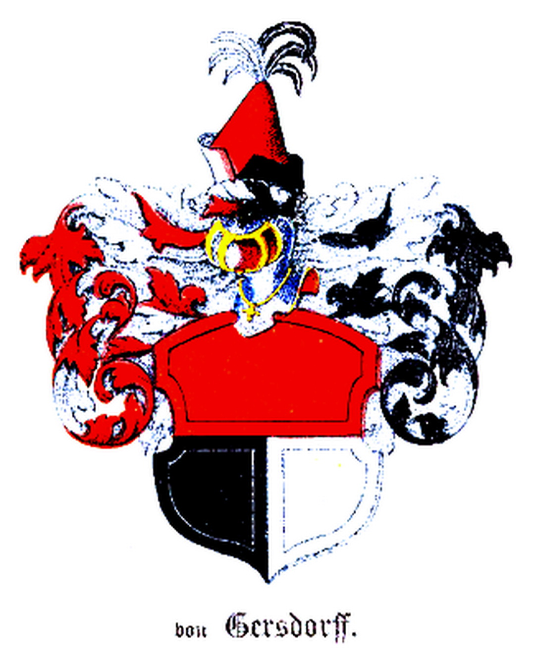 Coat of arms of Gersdorff family.